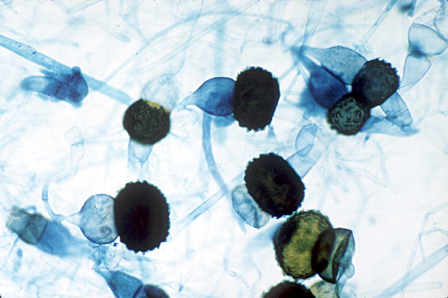 Light micrograph of a whole-mount slide of zygospores of Rhizopus